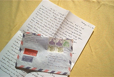 Letter